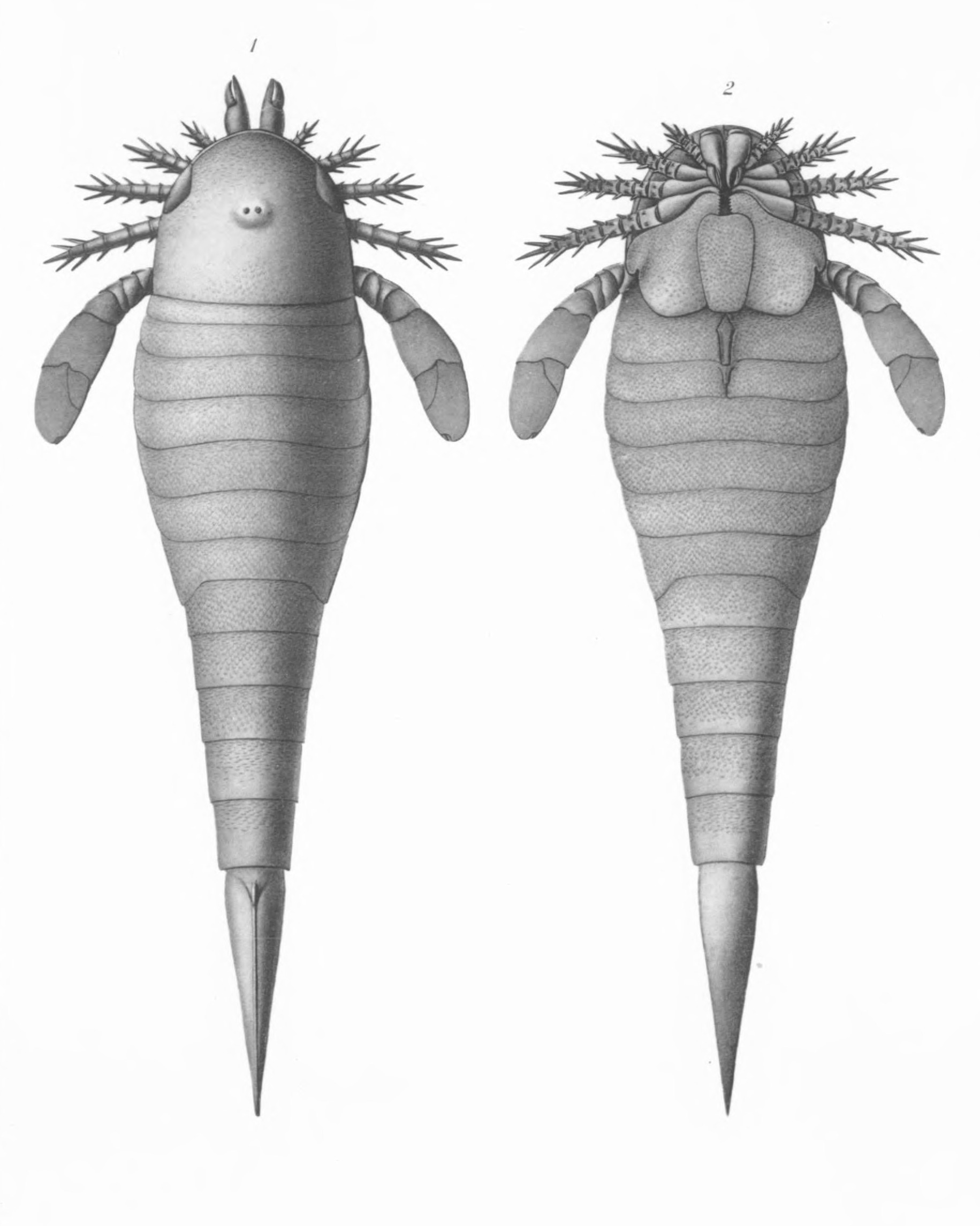 Hughmilleria socialis Sarle Page 335 See plates 60–63 1 Restorations of dorsal and ventral aspects. Natural size The Eurypterida of New York. Volume 2. New York State Museum Memoir 14, plate 59